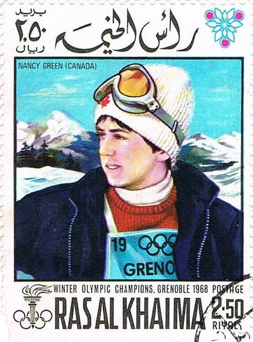 Nancy Greene